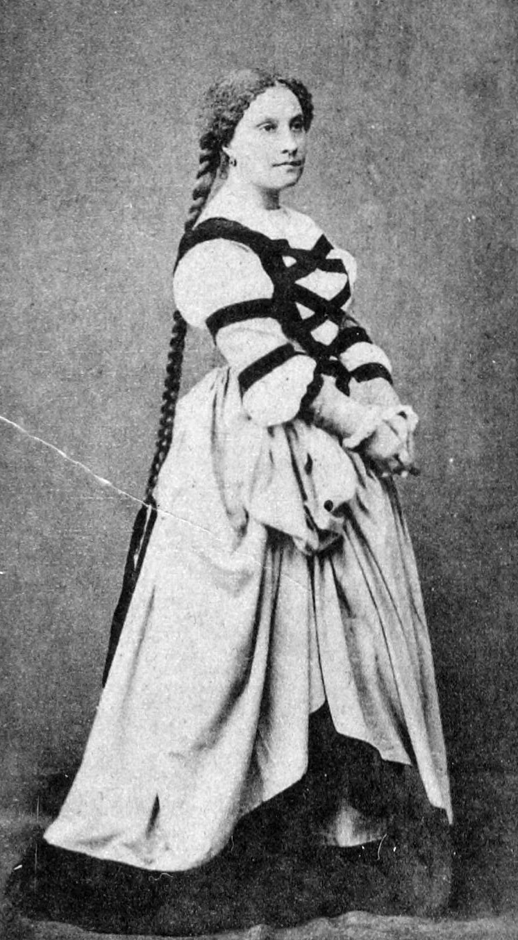 Caroline Carvalho as Marguerite in the opera Faust by Gounod, as she appeared at the premiere at the Théâtre Lyrique in Paris on 19 March 1859